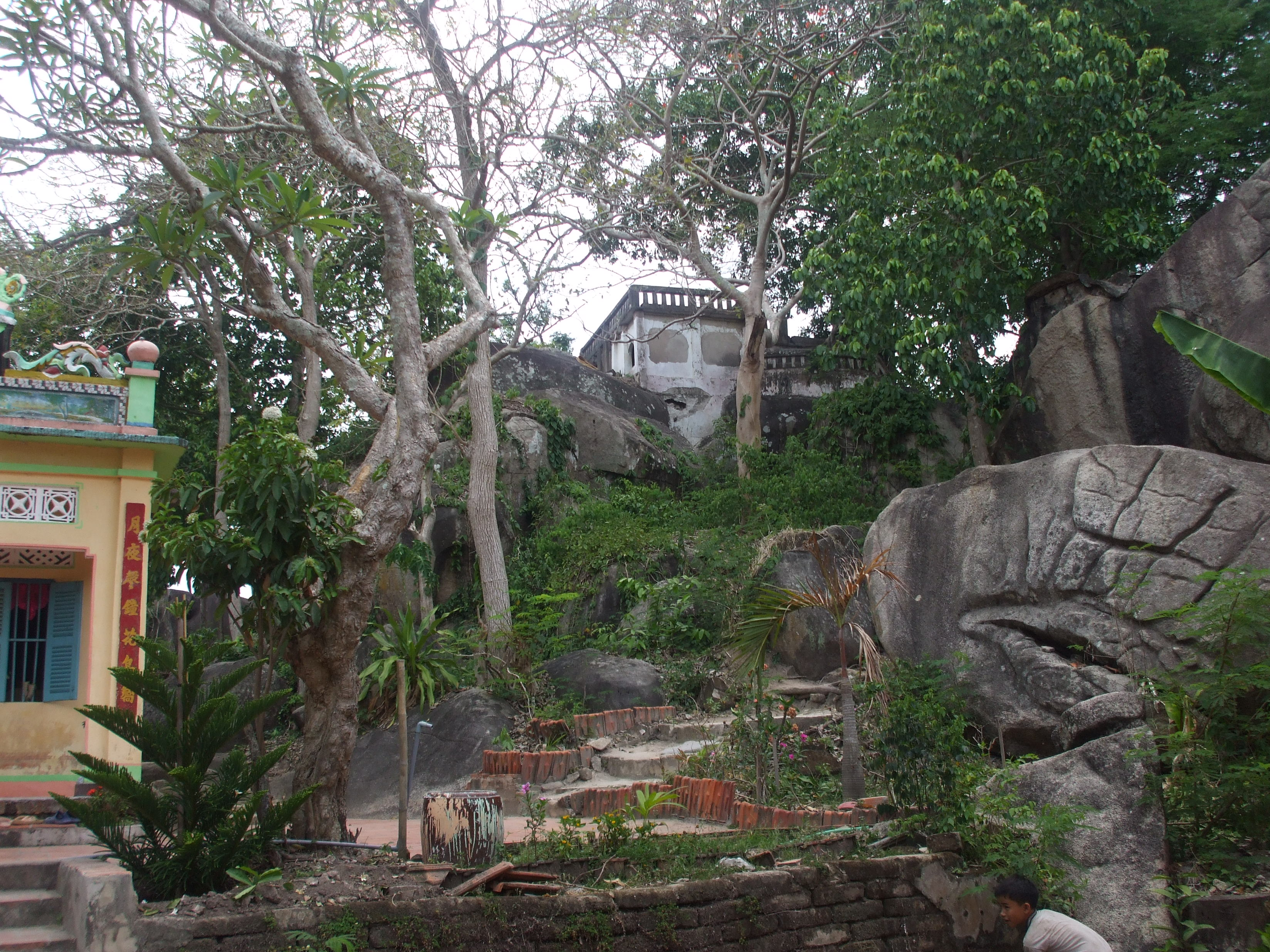 Mt. Thuy Dai (Water Fountain), smallest peak of Bay Nui (Seven Peaks) in An Giang province, Vietnam